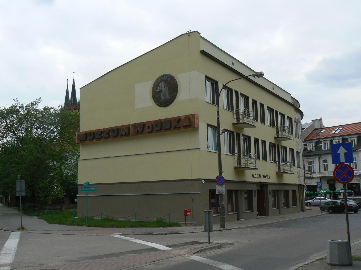 Army Museum in Białystok